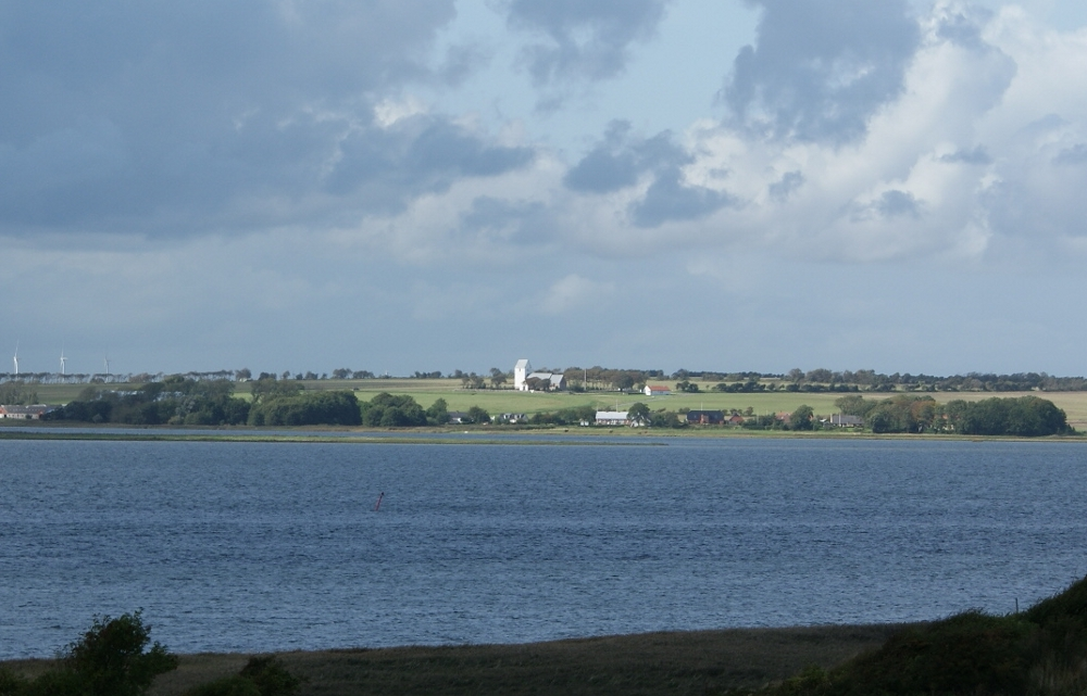 Aggersborg church in Hanherred, Jutland, Denmark